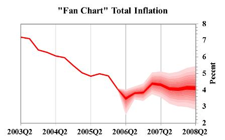 Fan Chart Colombian Total Inflation (Hypothetical Data)